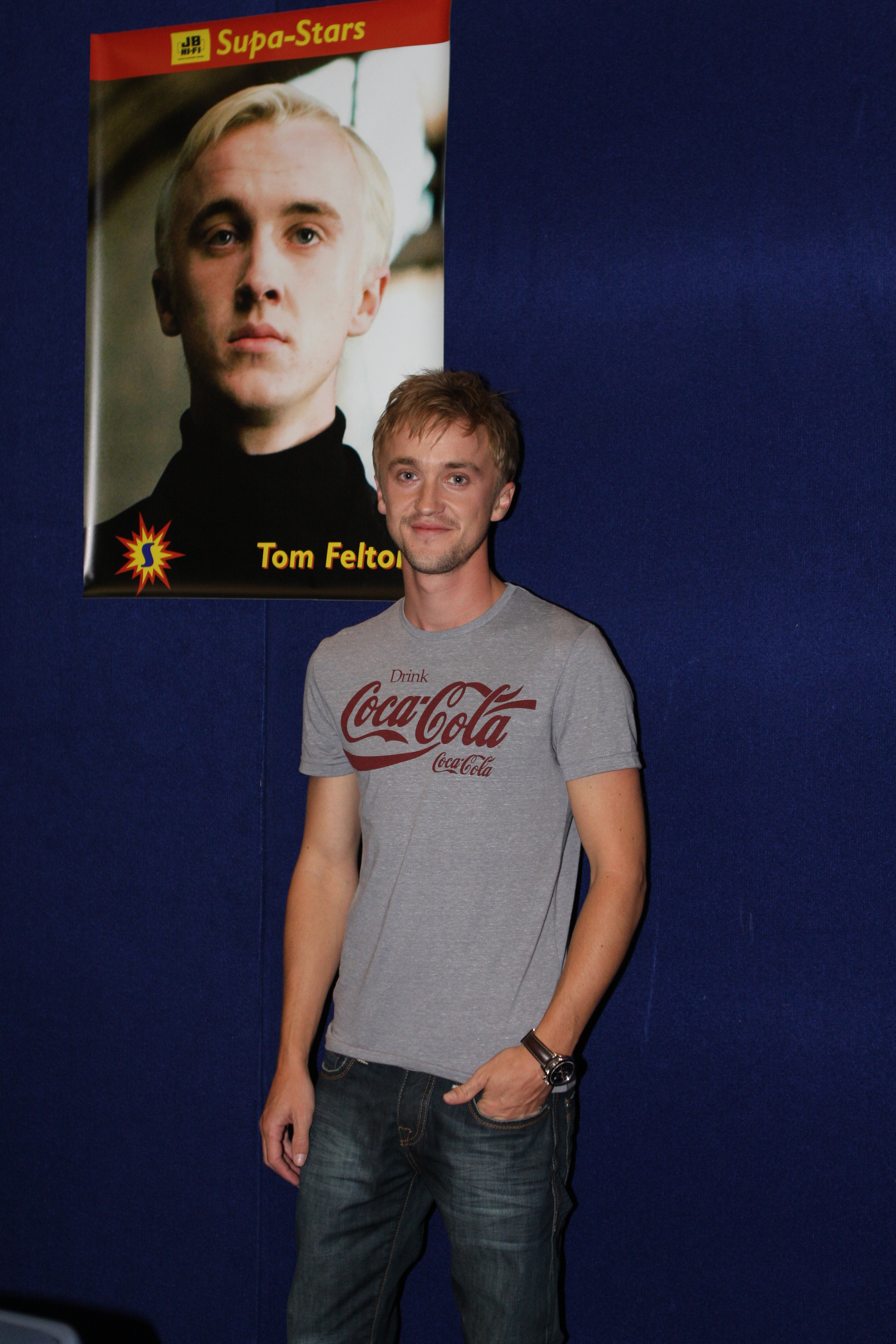 Tom Felton